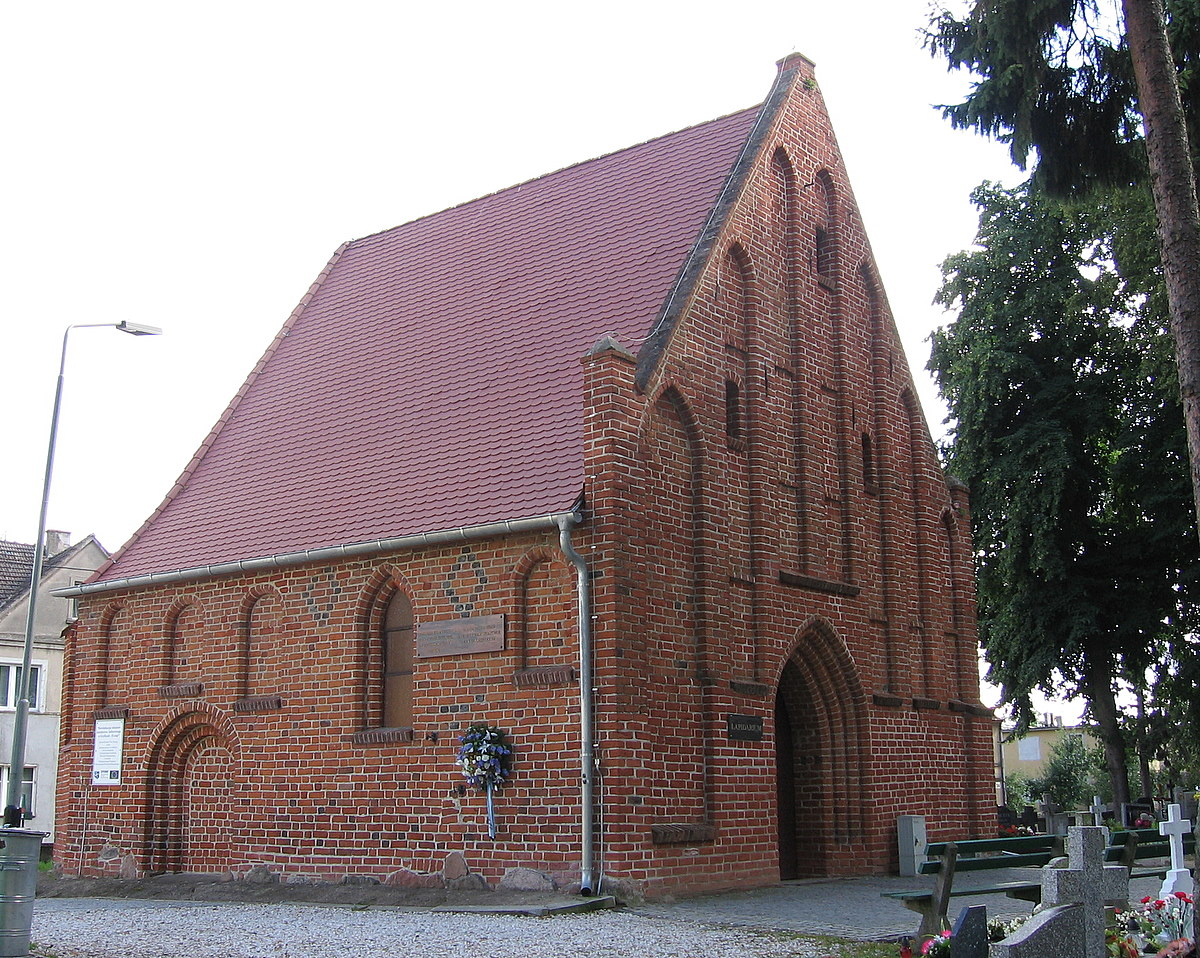 Chapel of St. George in cemetery in Gryfice, Poland